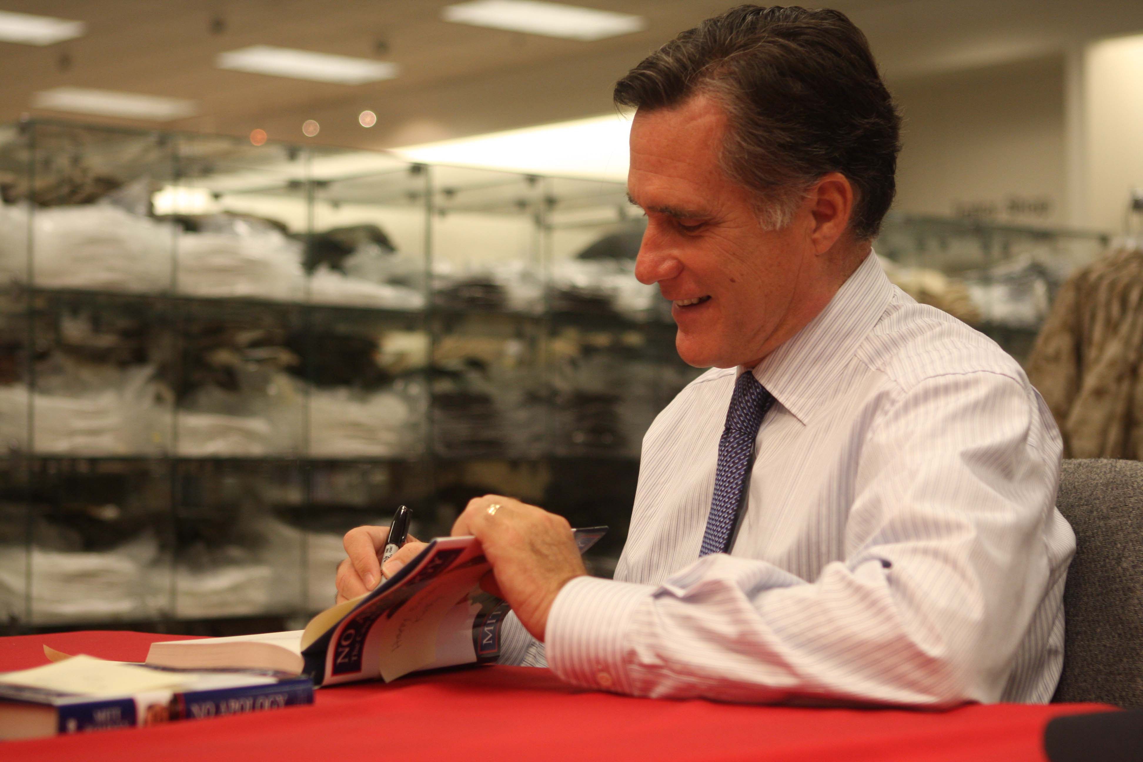 Mitt Romney, former governer of Massachusetts and author of No Apology: The Case for American Greatness, signs one of his books for service members aboard Marine Corps Air Station Miramar, March 20. More than 400 service members and their famiiles visited Romney in a span of two hours.